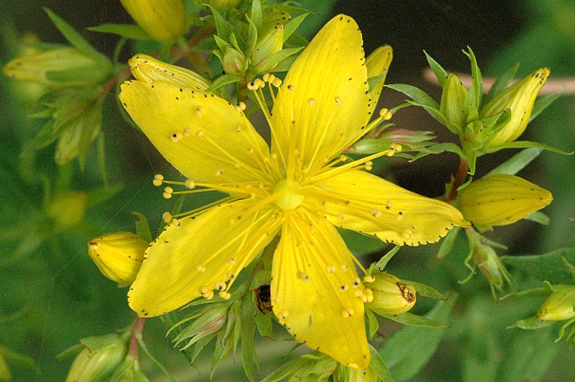 Hypericum perforatum from Commanster, Belgian High Ardennes .